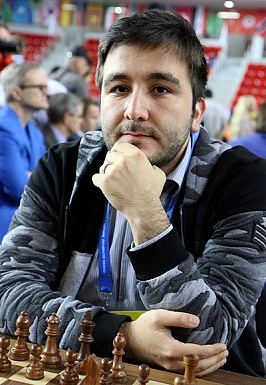 Eltaj Safarli in 2018 Chess Olympiad